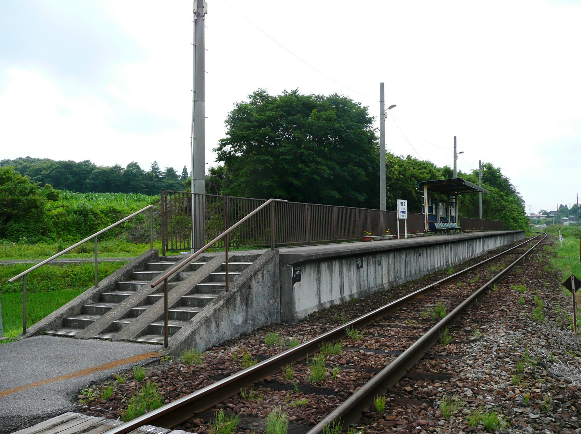 Sasaharada Station,Moka Railway.